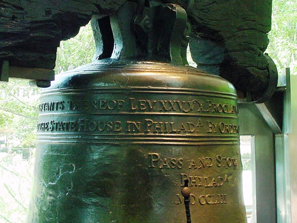 Liberty Bell inscription